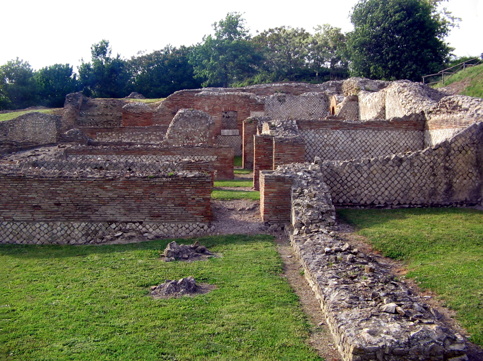 Front view of the thermae, in the archaeological park of the Ancient Roman town of Aeclanum. The opus reticulatum brickwork is shown in the picture.